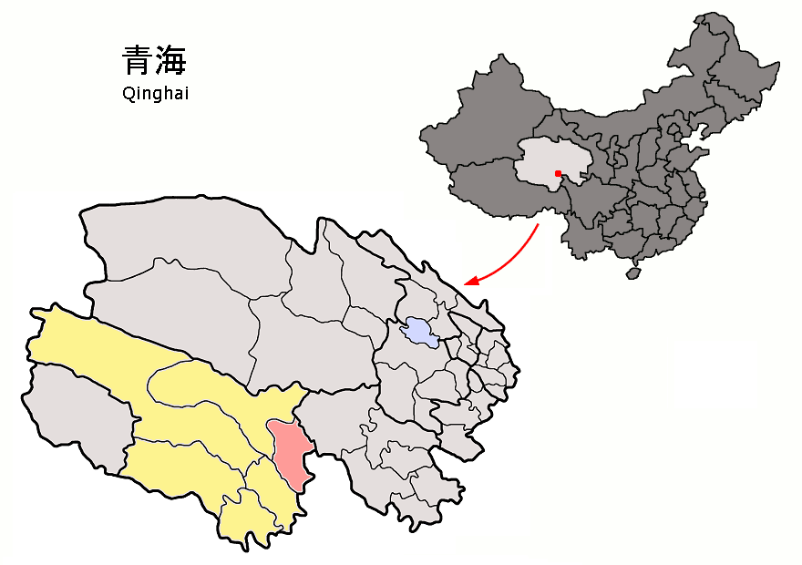 Location of Chindu County (pink) and Yushu Prefecture (yellow) within Qinghai province of China Map drawn in september 2007 using various sources, mainly : Qinghai province administrative regions GIS data: 1:1M, County level, 1990 Qinghai Counties map from "Plateau Perspectives" (the limits of some county-level subdivisions may not be accurate)